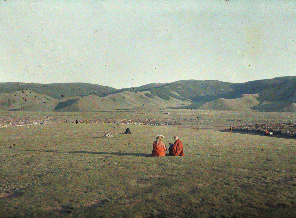 Lamas on the Tsagaan hill or White hill, Urga, Mongolia. July 23, 1913. Autochrome from Albert Kahn's Archives de la planète.